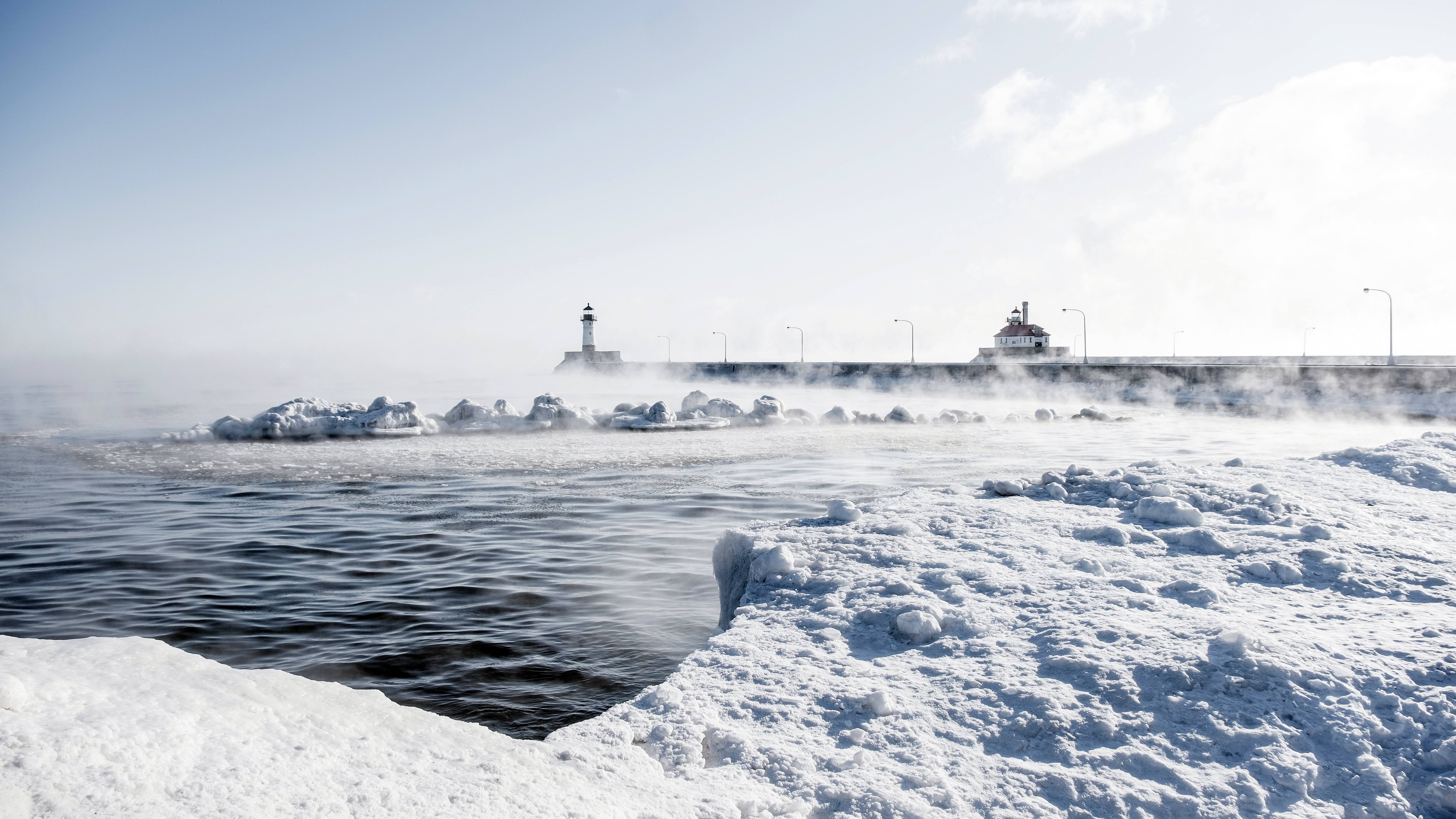 Duluth North Pier Light, Duluth, Minnesota.